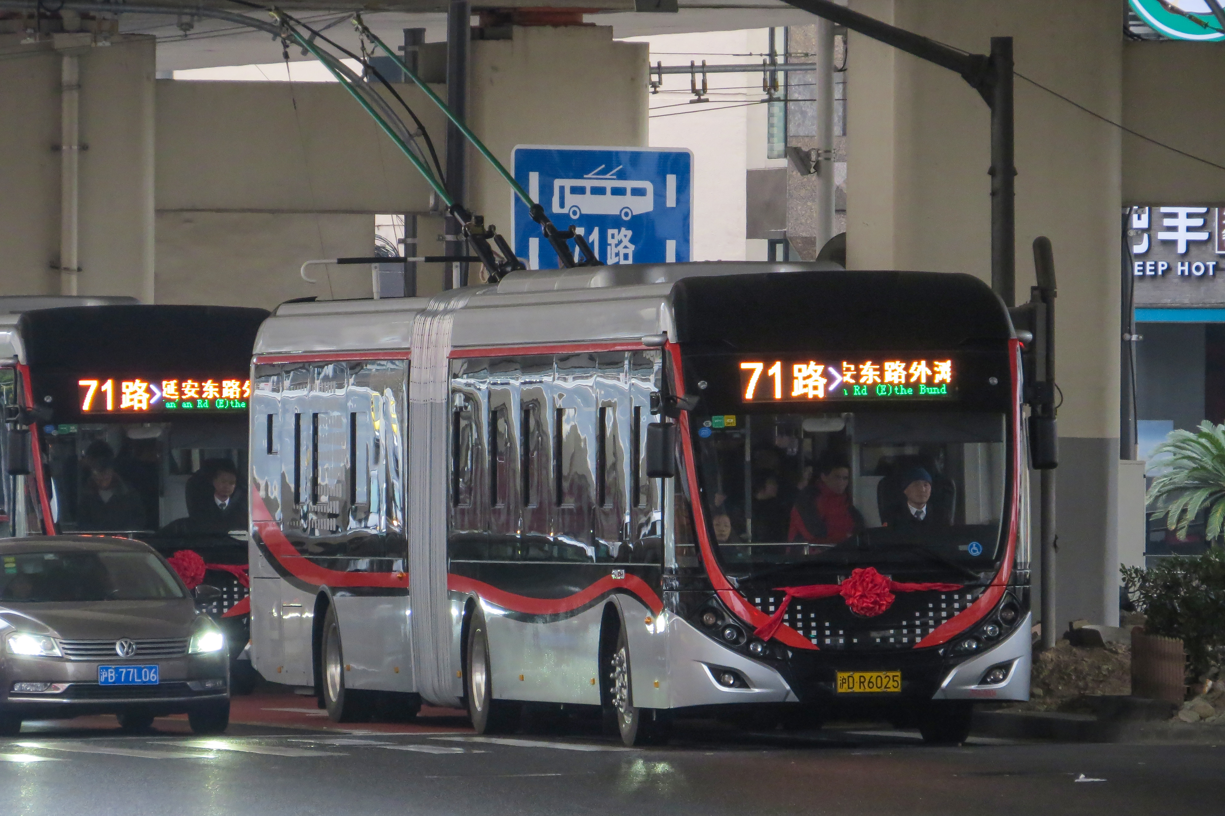 Brand new Route 71, using Yutong ZK5180A articulated trolleybuses. Maybe it's going to be a BRT, but who knows what will come out next?